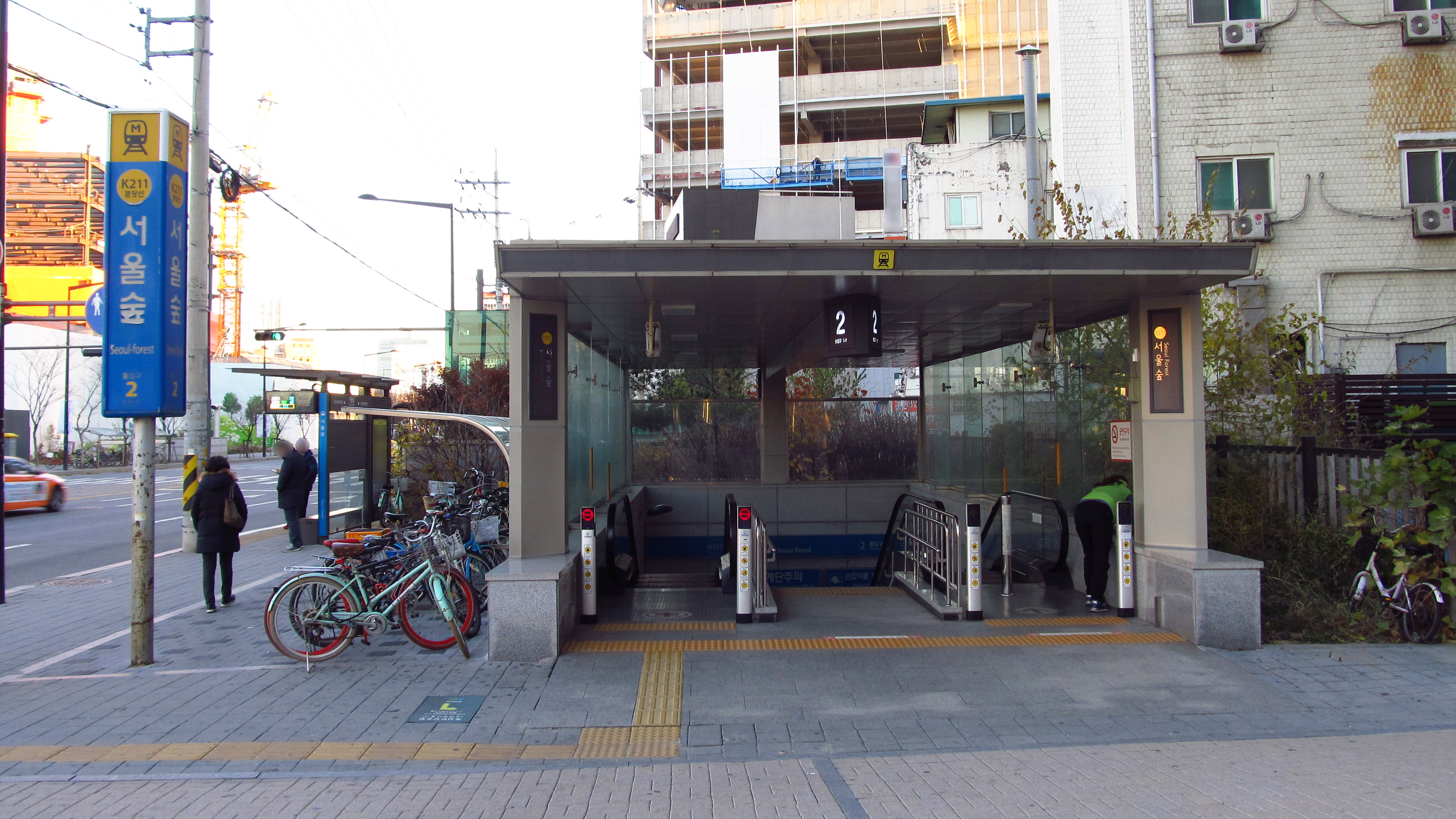 The no.2 entrance to Hanti Station on the Bundang Line in Seongdong-gu, Seoul, Republic of Korea(South Korea)